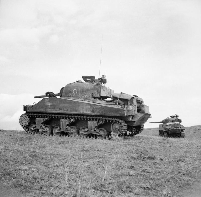 Sherman tanks of 46th Royal Tank Regiment provide fire support for the Loyal Regiment at Anzio, Italy, 25 January 1944. Sherman tanks of 46th Royal Tank Regiment fires in support of the Loyal Regiment at Anzio, 25 January 1944.